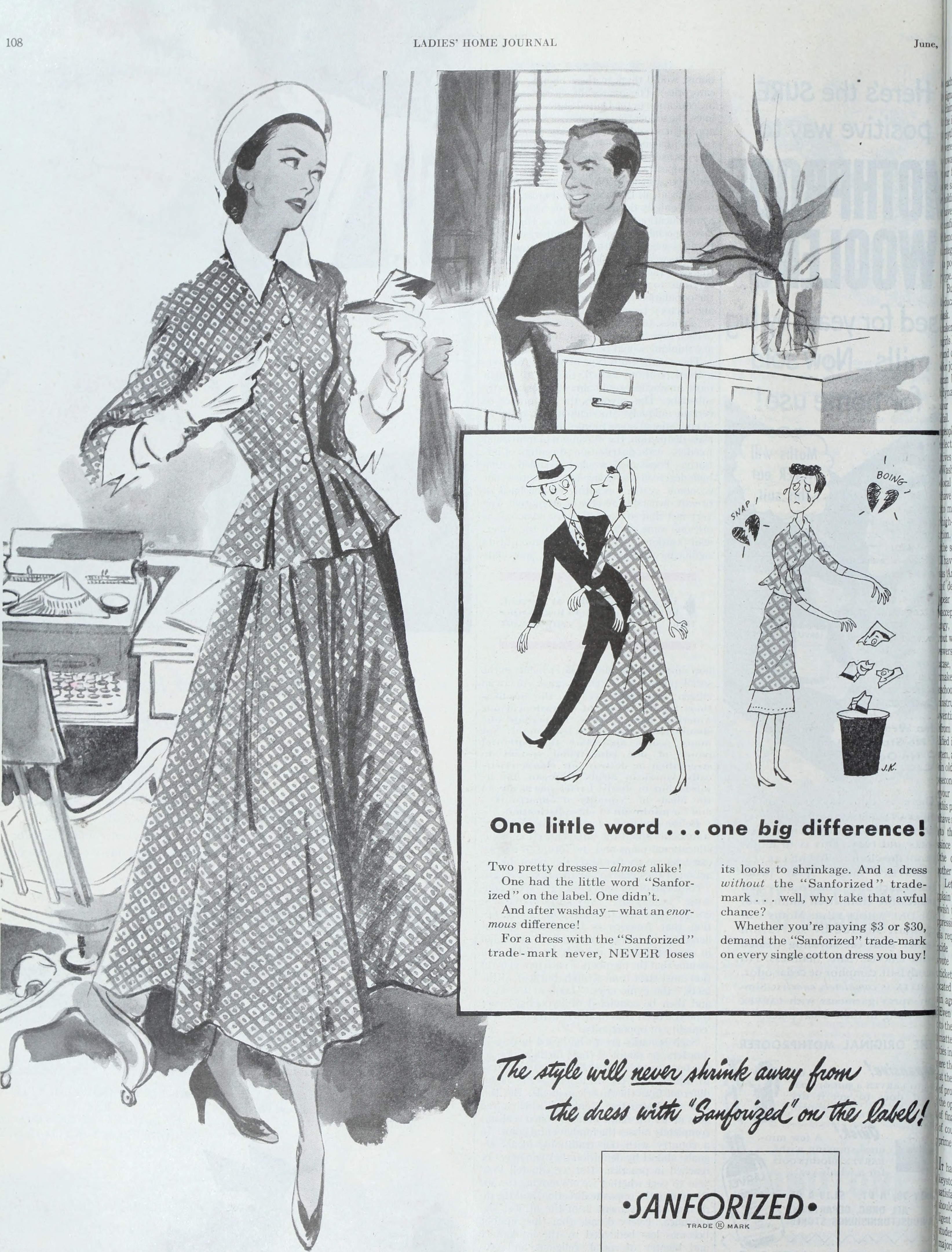 Title: The Ladies' home journal Year: 1889 (1880s) Authors: Wyeth, N. C. (Newell Convers), 1882-1945 Subjects: Women's periodicals Janice Bluestein Longone Culinary Archive Publisher: Philadelphia : (s.n.) Text Appearing Before Image: BAKELITE CORPORATION Unit of Union Carbide and Carbon Corporation30 East 42nd Street, New York 17, N. Y. • Scuff-, craze- and weather-resistantWater- and mildew-proof • Rich and luxurious • Longer wearing • Wash and dry like a mirror • In dazzling high gloss orsubtle grains and textures LADIES HOME JOLliN W, Text Appearing After Image: one big difference! its looks to shrinkage. And a dresswithout the Sanforized trade-mark . . . well, why take that awfulchanced Whether youre paying $3 or $30,demand the Sanforized trade-markon every single cotton dress you buy! -SANFORIZED TRADE © MARK Cluett, Peabody & Co., Inc permits: use of its trade-mark Sanforized, adopted in 1930, only on fabrics which meet this companys rigid shrinkage requirements.1-abr.cs bearing the trade-mark Sanforieed will not shrink more than 1% by the Governments standard test. LADIES HOME JOURNAL 109 (Continued from Page 107):ich advance toward our historic goals theignal to other countries brightens; we pro-: aim to those in other democratic lands that le ideas in the American creed are no merelyths or legends. On the other hand, if wei ere to lose ground in our attempts to moveward our social goals, we should jeopardizeor future as a free people; more and moree should turn to coercion as a method ofDlding our society together. One does notave